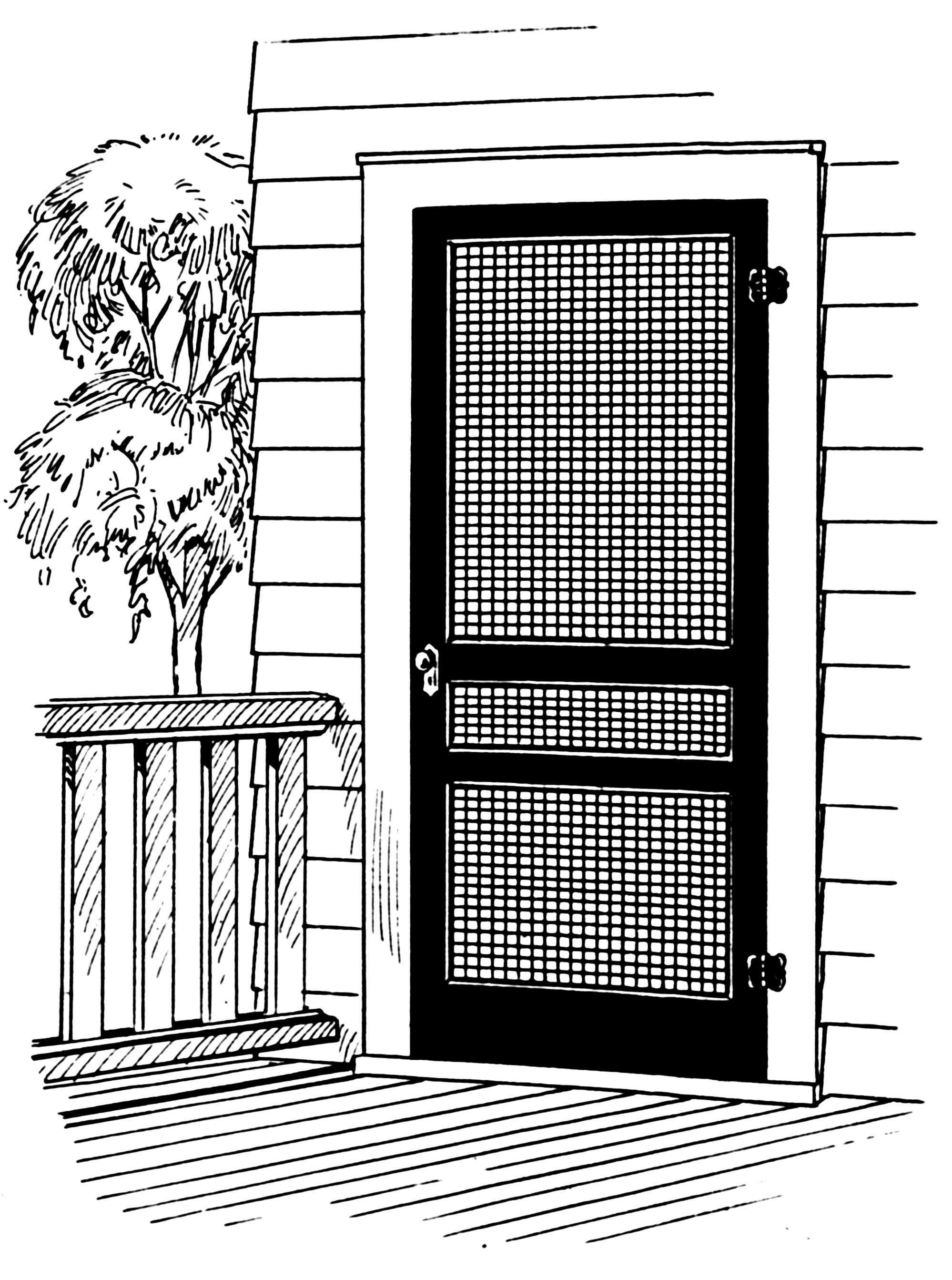 Line art of a door screen.